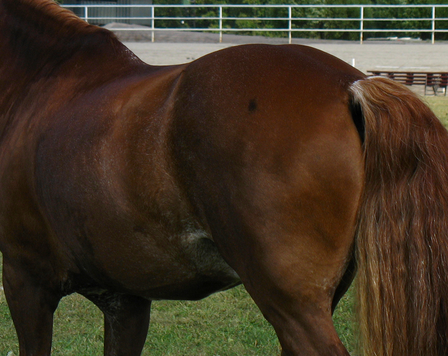 A Welsh Cob gelding exhibiting a "skunk tail" characteristic of rabicano, profuse roaning (part of which might be from his sabino trait), and a Bend-or spot.